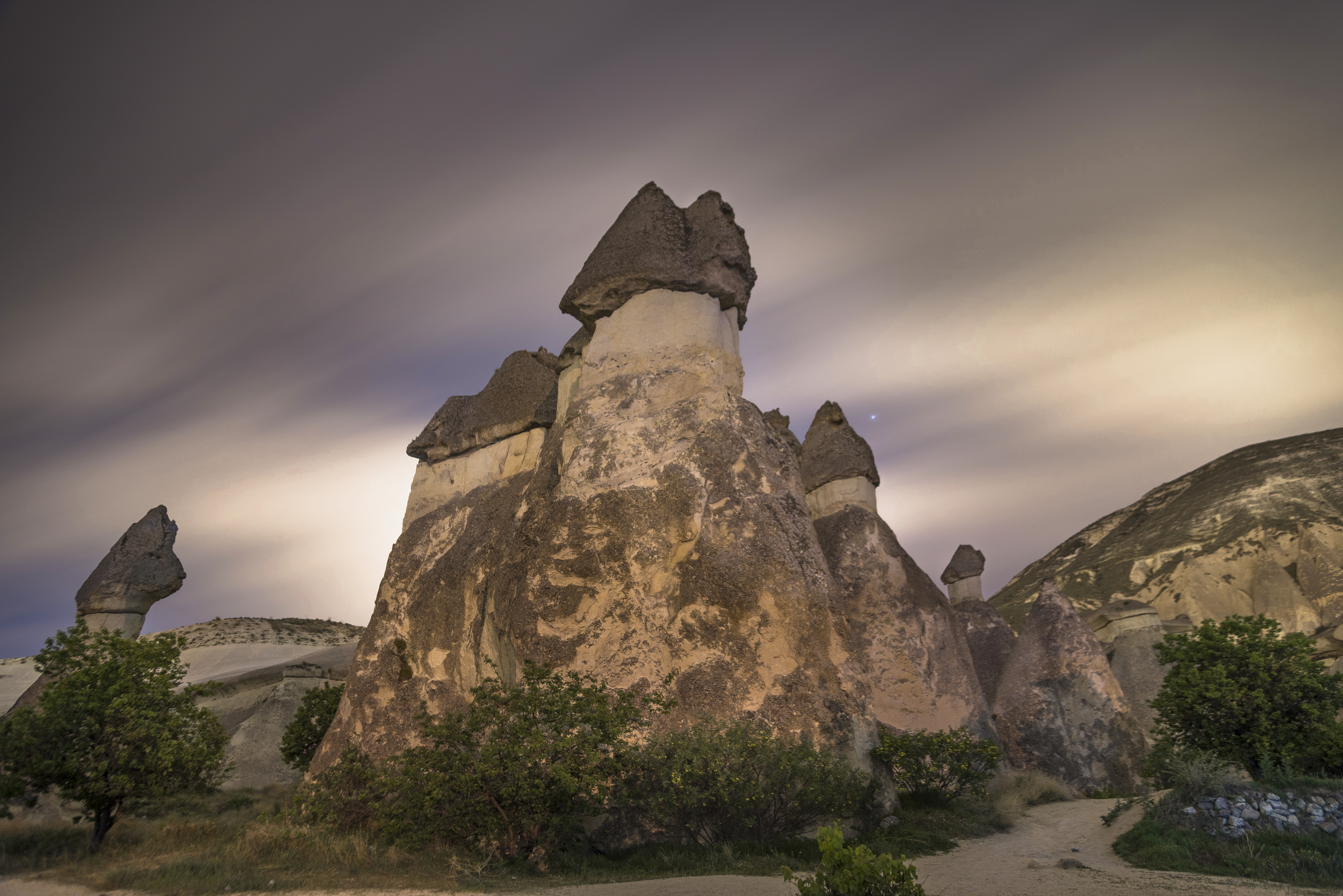 Pasabag in Cappadocia is located on the road to Zelve, coming from Goreme or Avanos. Highly remarkable earth pillars can be seen here, in the middle of a vineyard, hence the name of the place which means: the Pacha's vineyard. Pacha means "General", the military rank, in Turkish and it is a very common nick name. This site is also called Monks Valley. The name was derived from some cones carved in tuff stones which stand apart. Currently, there is a vineyard and a number of tuff cones standing right next to the road.